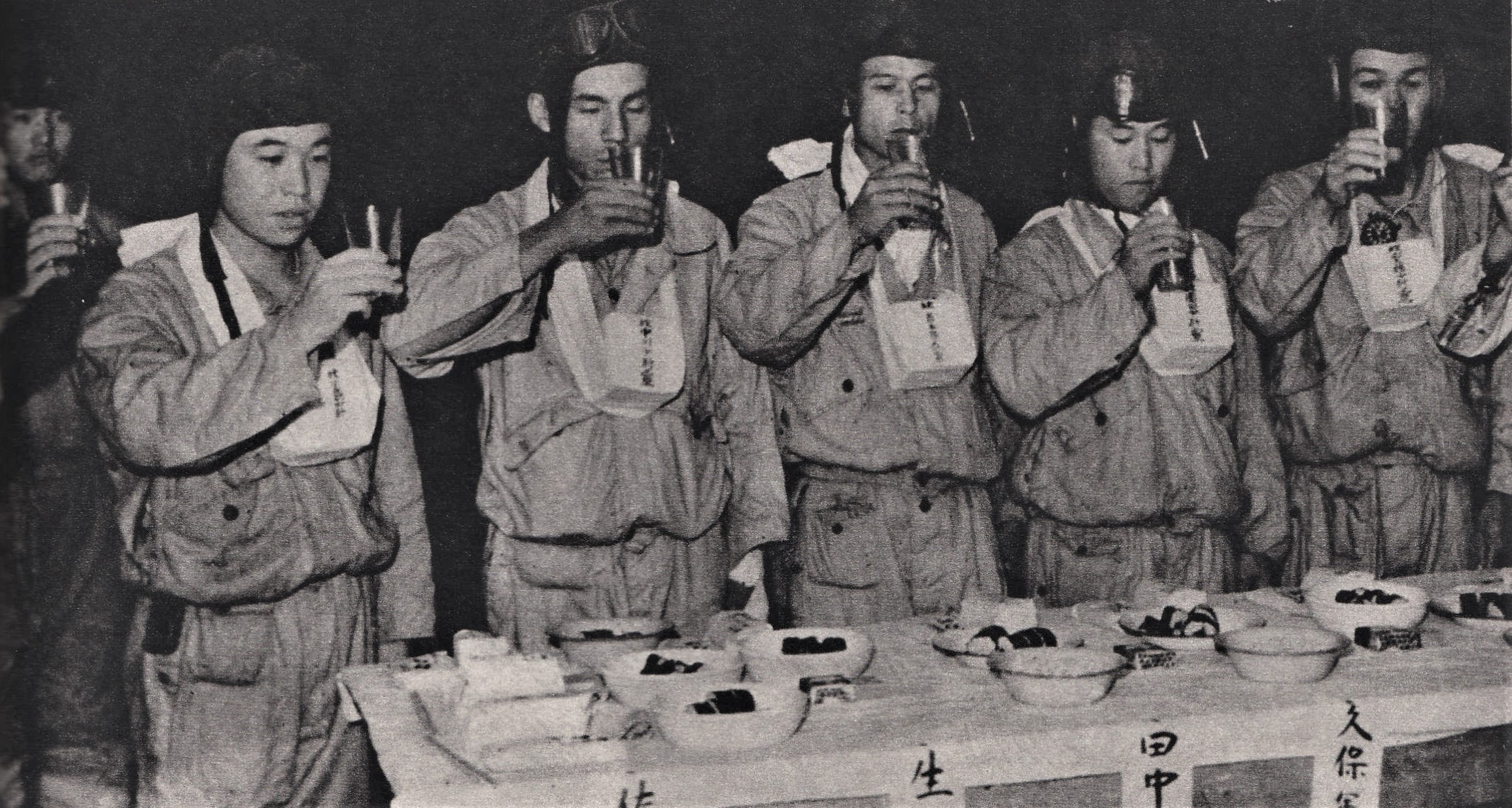 Vanda Corps pilot toasting before a sortie